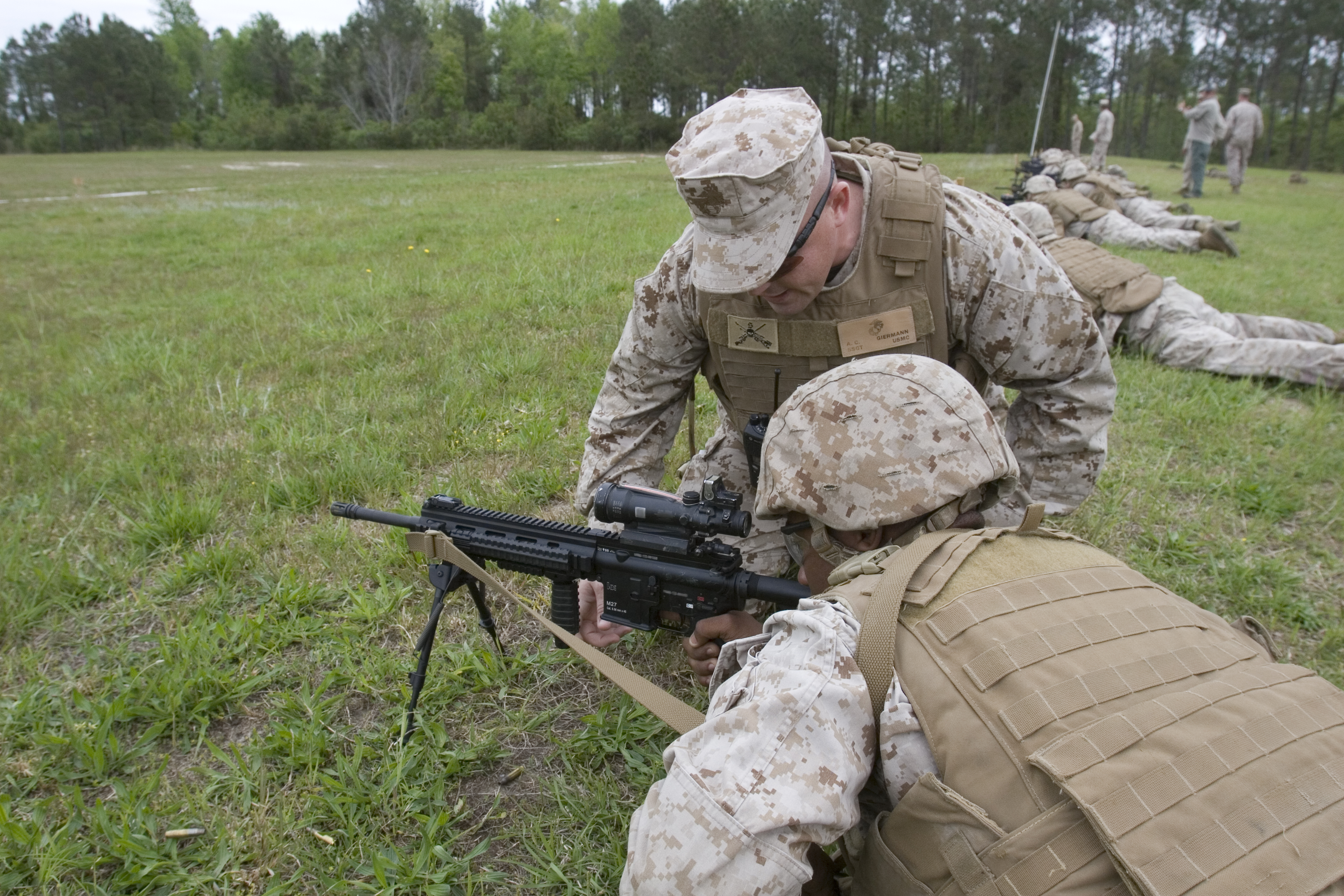 Staff Sgt. Andrew Giermann with 2nd Light Armored Reconnaissance Battalion, 2nd Marine Division, helps train Marines from the battalion on the new M27 Infantry Automatic Rifle meant to replace the M249 Squad Automatic Weapon in the unit’s upcoming deployment. Many of the key features of the IAR, such as a smooth trigger pull and an upgraded butt stock for less recoil, have turned several of the battalion’s SAW gunners into lifetime fans of the M27.